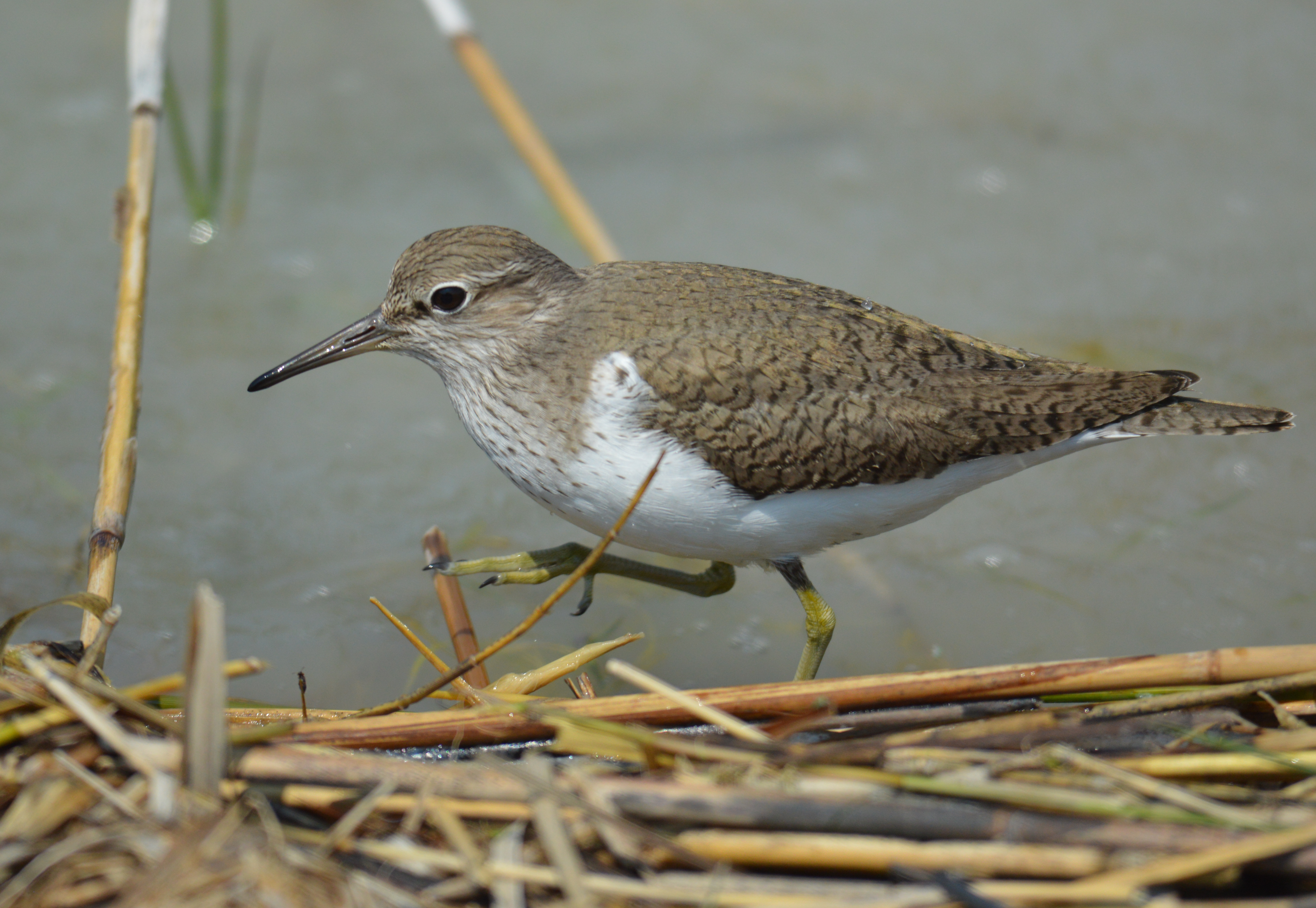 Common Sandpiper, Darscho, Burgenland, Austria.